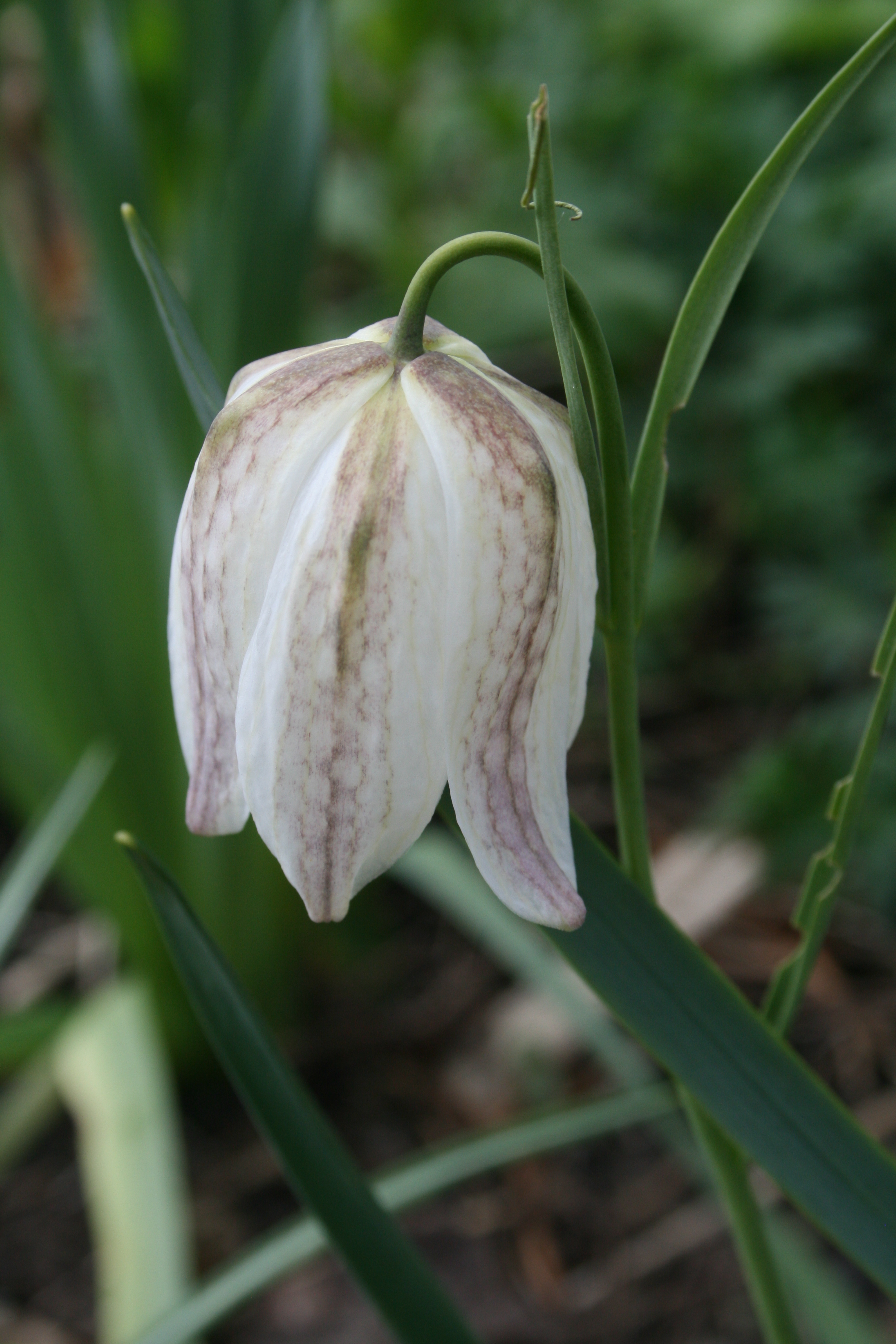 Fritillaria meleagris